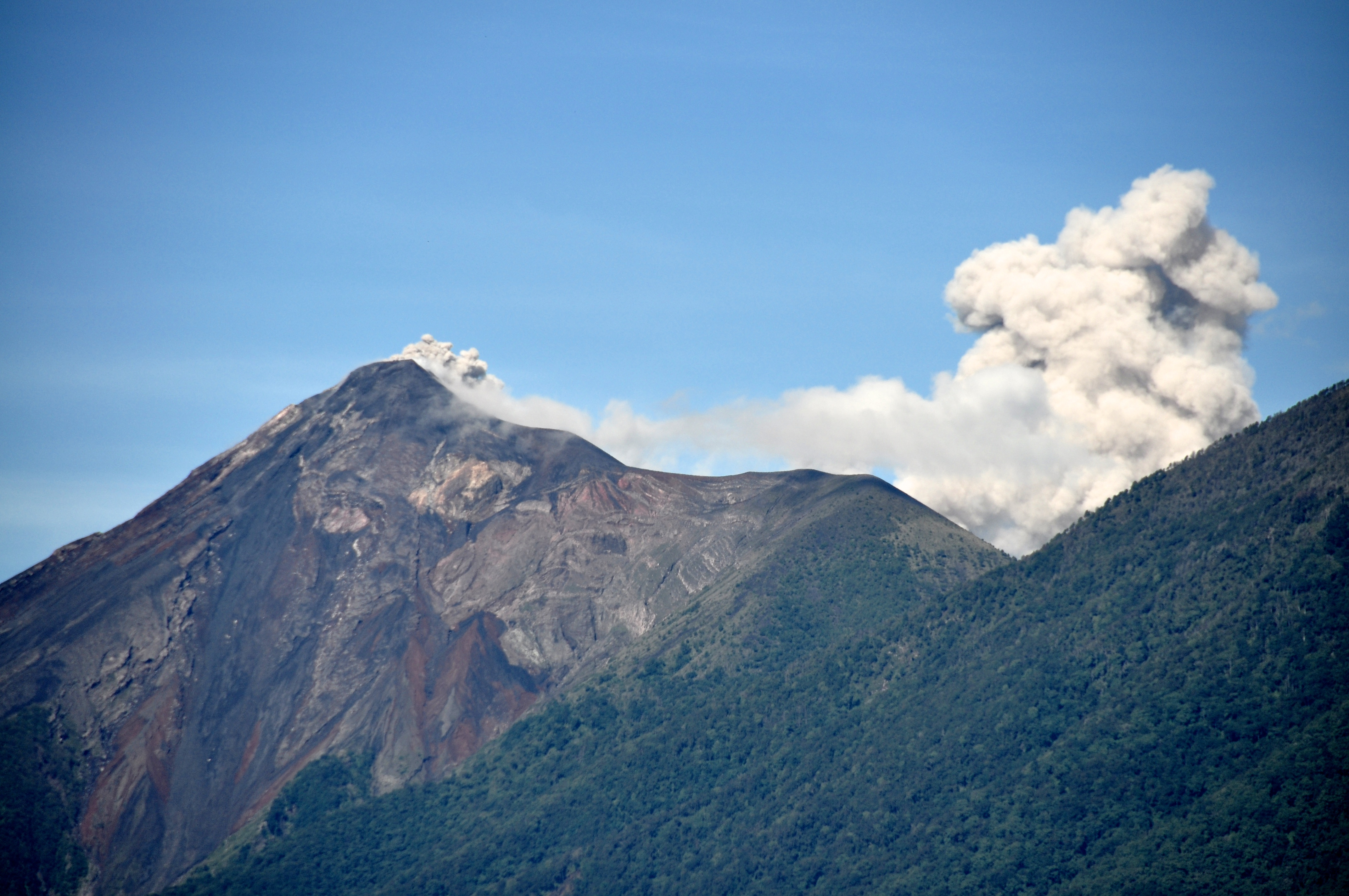 Eruption Volcan de Fuego, Guatemala.